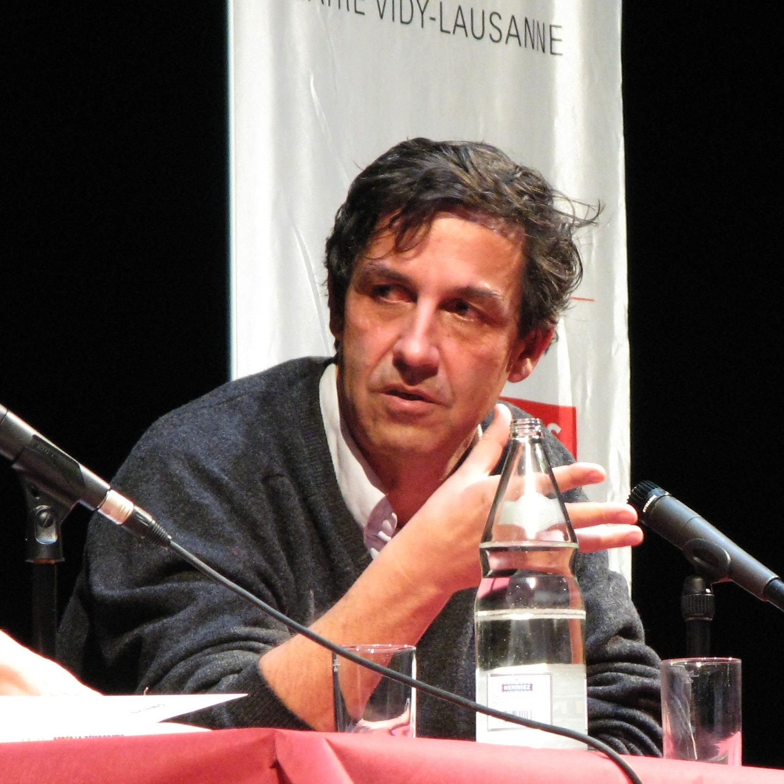 Emmanuel Todd